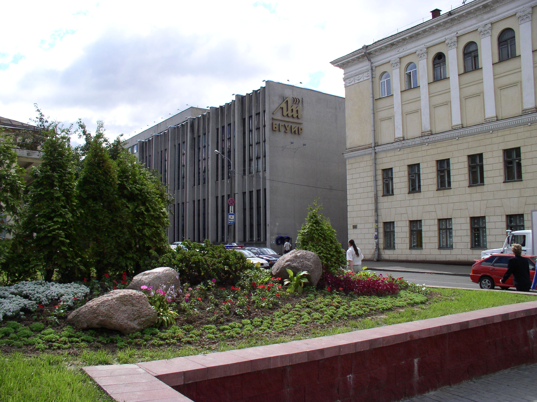 Belarusian State University of Informatics and Radioelectronics. Minsk, Belarus.